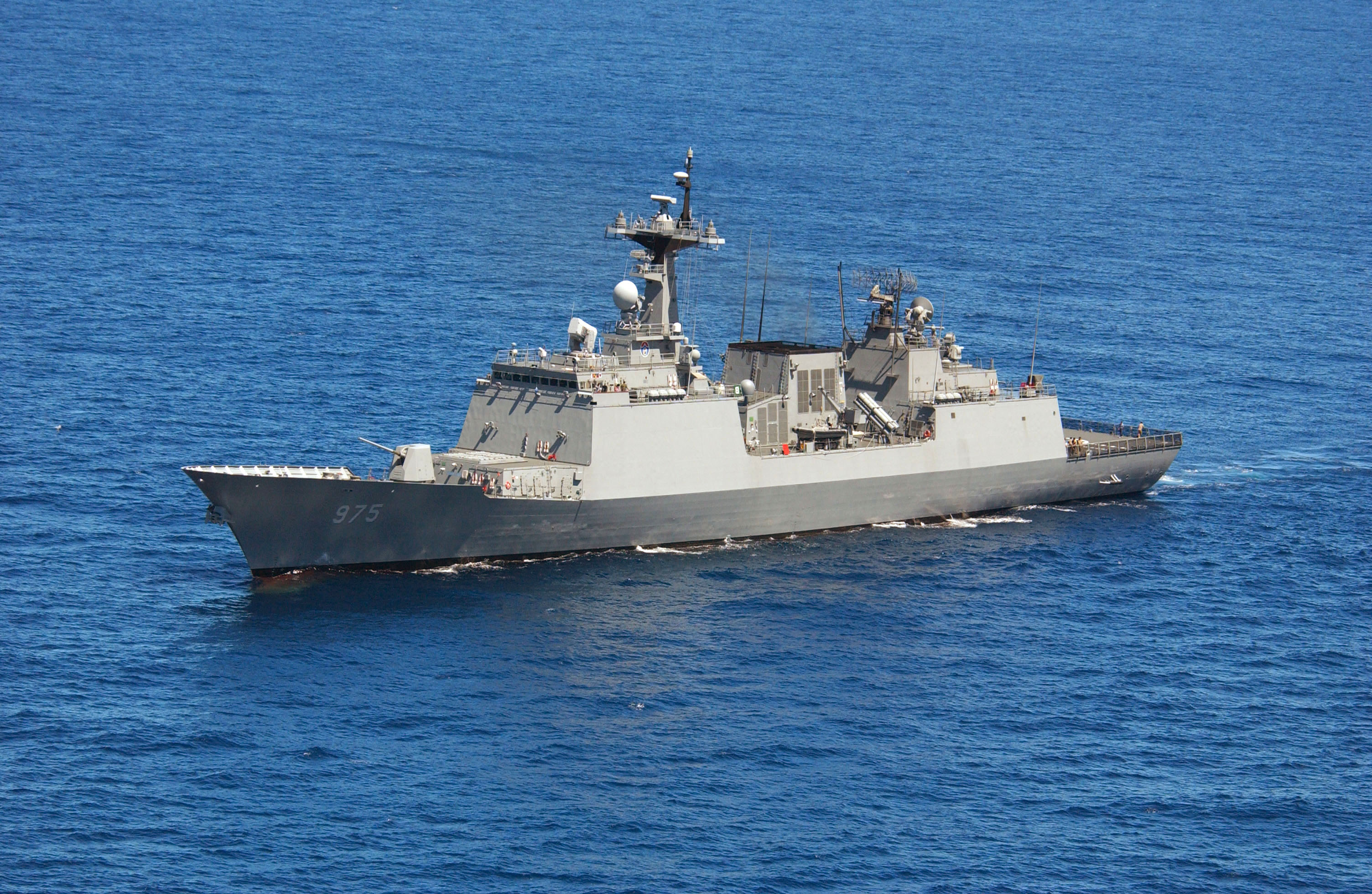 040706-N-6811L-045 Pacific Ocean (July 6, 2004) ? Republic of Korea Destroyer Yi SunShin (DDH 975) cruises to position where it will participate in exercise Rim of the Pacific (RIMPAC) 2004. RIMPAC is the largest international maritime exercise in the waters around the Hawaiian Islands. This years exercise includes seven participating nations; Australia, Canada, Chile, Japan, South Korea, the United Kingdom and the United States. RIMPAC is intended to enhance the tactical proficiency of participating units in a wide array of combined operations at sea, while enhancing stability in the Pacific Rim region.